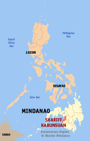 Map showing the location of the Province of Shariff Kabunsuan